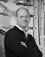 A photo of William F. Baker, structural engineering partner at Skidmore, Owings & Merrill